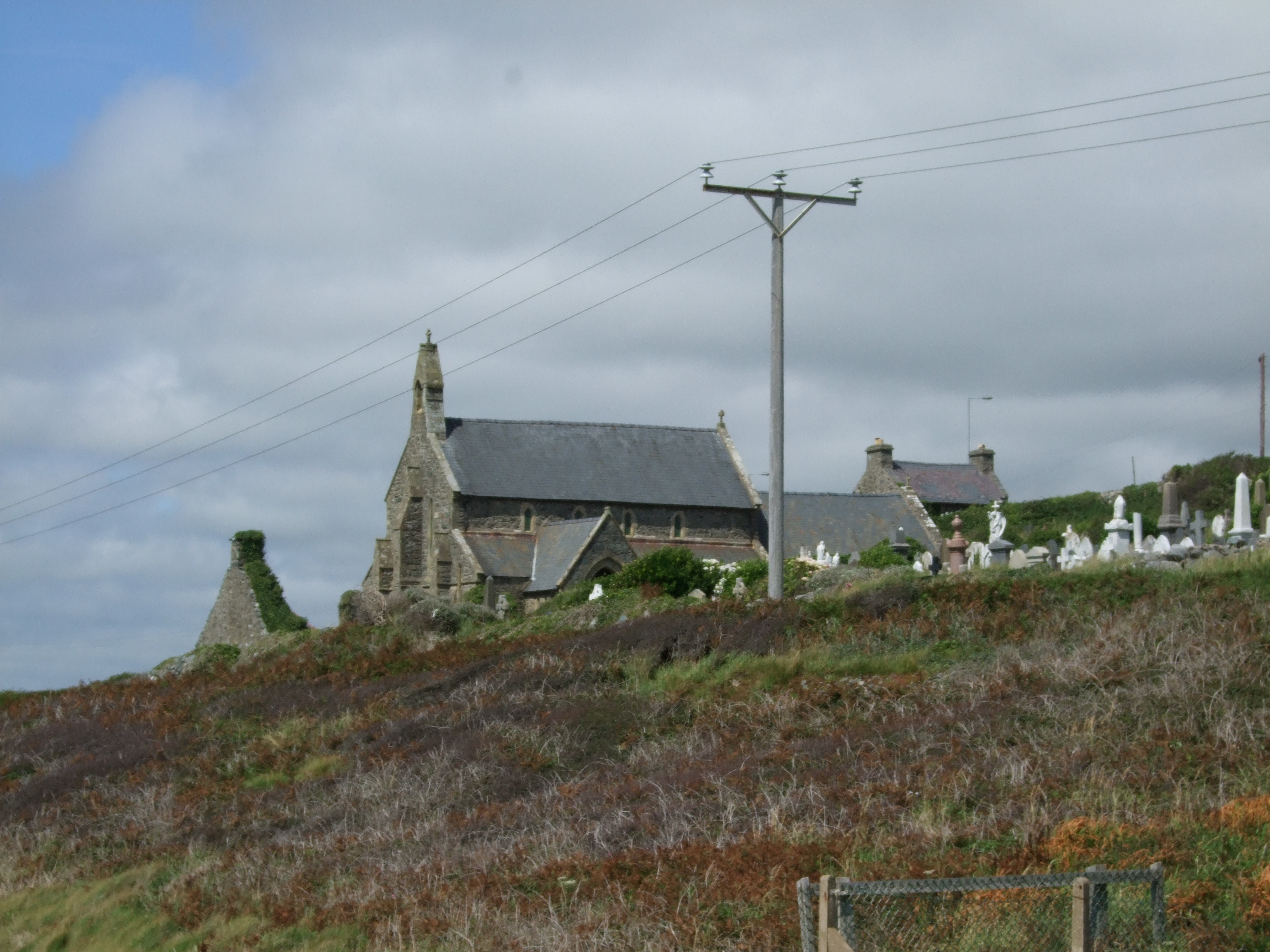 Church of St Mary and St Bodfan Llanaber Barmouth